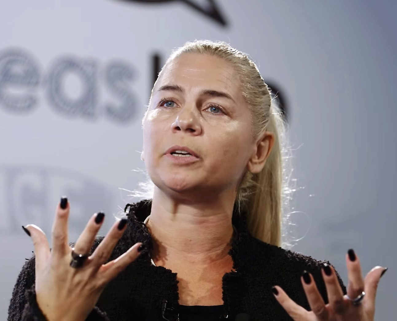 Machines that can read human emotions | Maja Pantic Machines are already very good at recognising human emotions when they have a static, frontal view of a person’s face. Maja Pantic, Professor of Affective and Behavioral Computing at Imperial College London, shares progress towards identifying people’s emotions “in the wild” and discusses possible applications, from marketing to medicine.